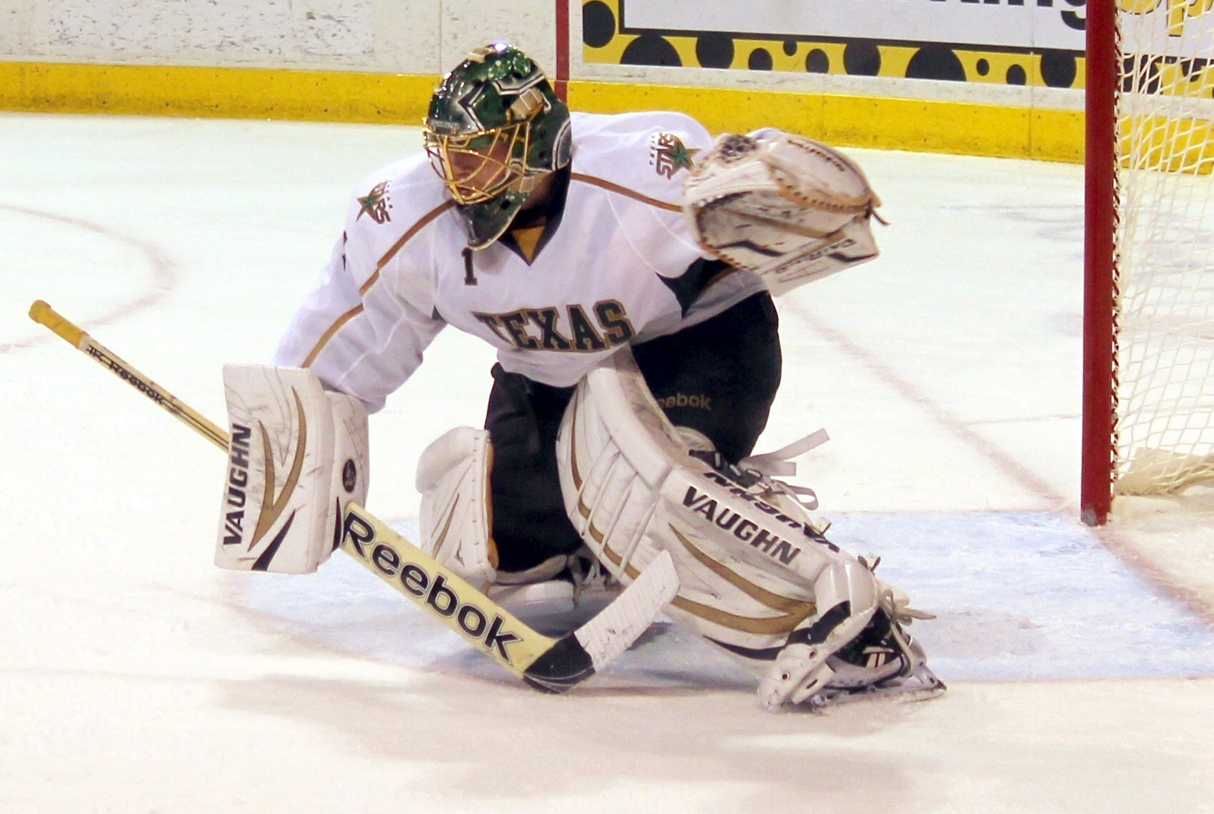 Goaltender Jack Campbell of the Texas Stars